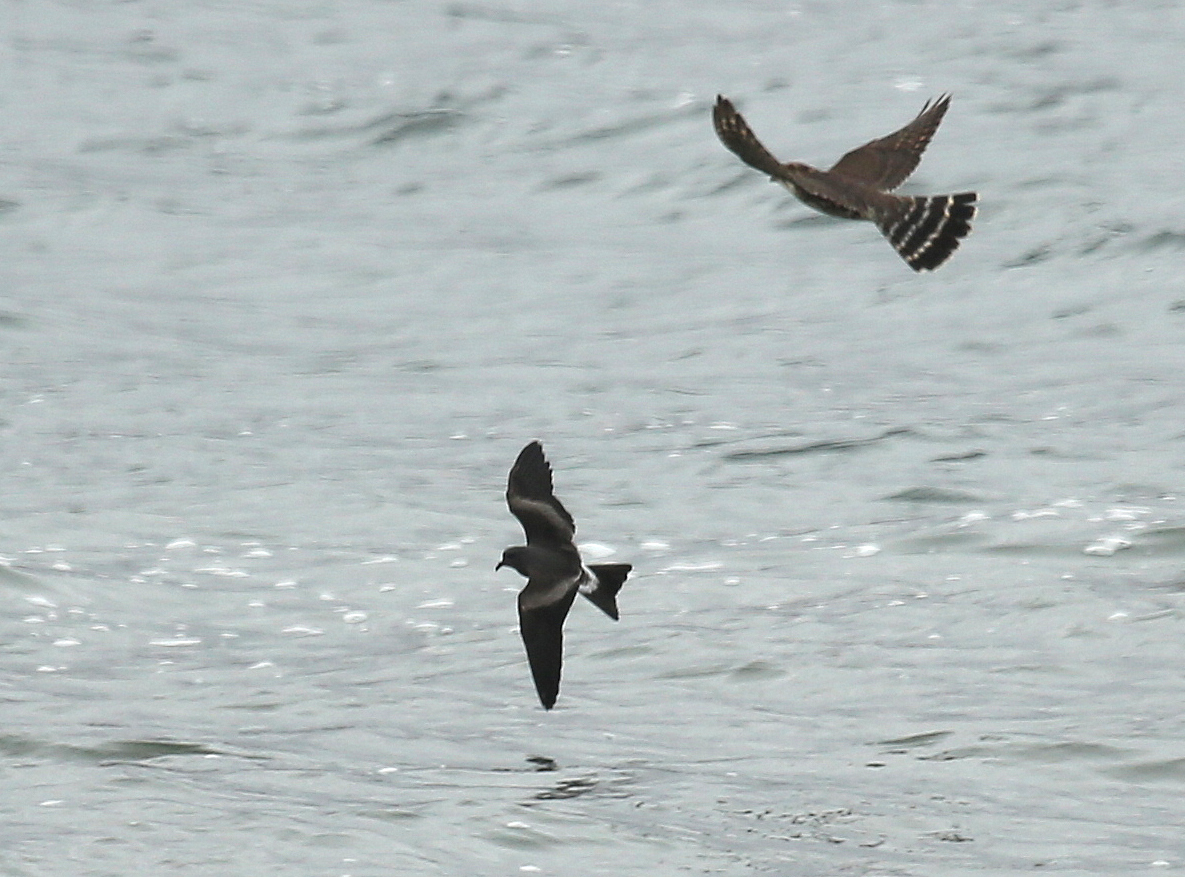 Leach's Storm Petrel Oceanodroma leucorhoa escaping from attack by Merlin Falco columbarius, Cayuga Lake, New York. The petrel flew in from behind us at 11:48 AM, over the docks, presumably from inland. Flew right by us at the lighthouse, at most 3 m away. Started pattering on the water in front of us and was quickly attacked by a Merlin that made several passes at it. Eventually, the Merlin left and the petrel started moving south over the water.